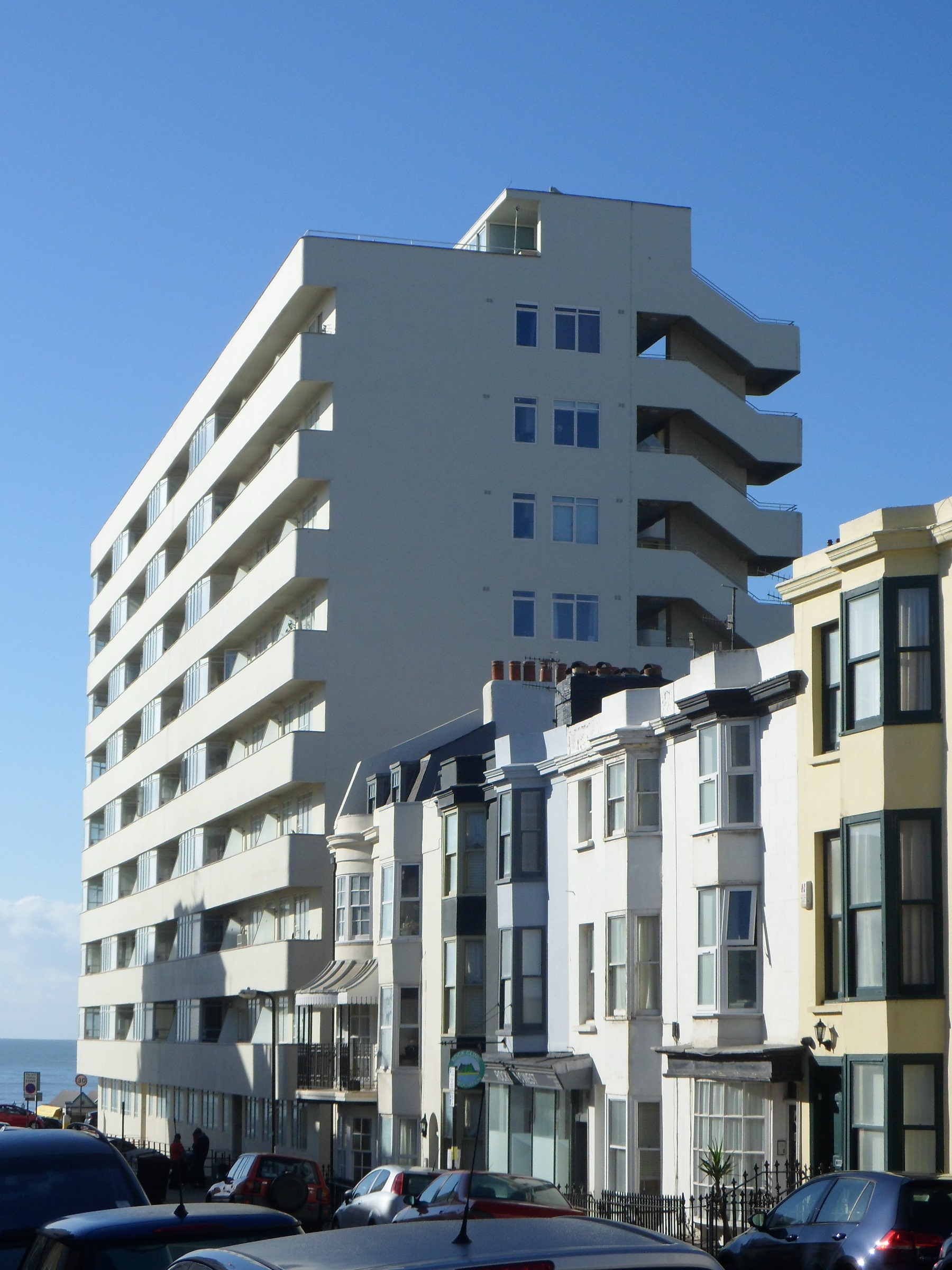 Embassy Court, junction of Kings Road and Western Street, Brighton, City of Brighton and Hove, England. A well-known Modernist landmark on the seafront on the border of Brighton and Hove, designed by Wells Coates in 1935–36. This view looks down Western Street towards the sea. Listed at Grade II* by English Heritage (NHLE Code 1381642)